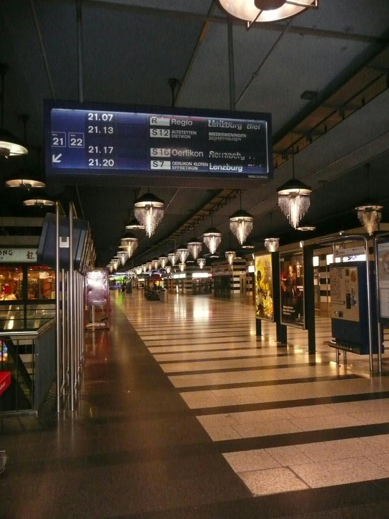 Zürich main railway station empty on Christmas Eve